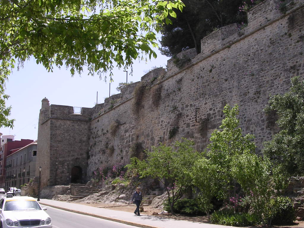 Dénia Castle in Spain.